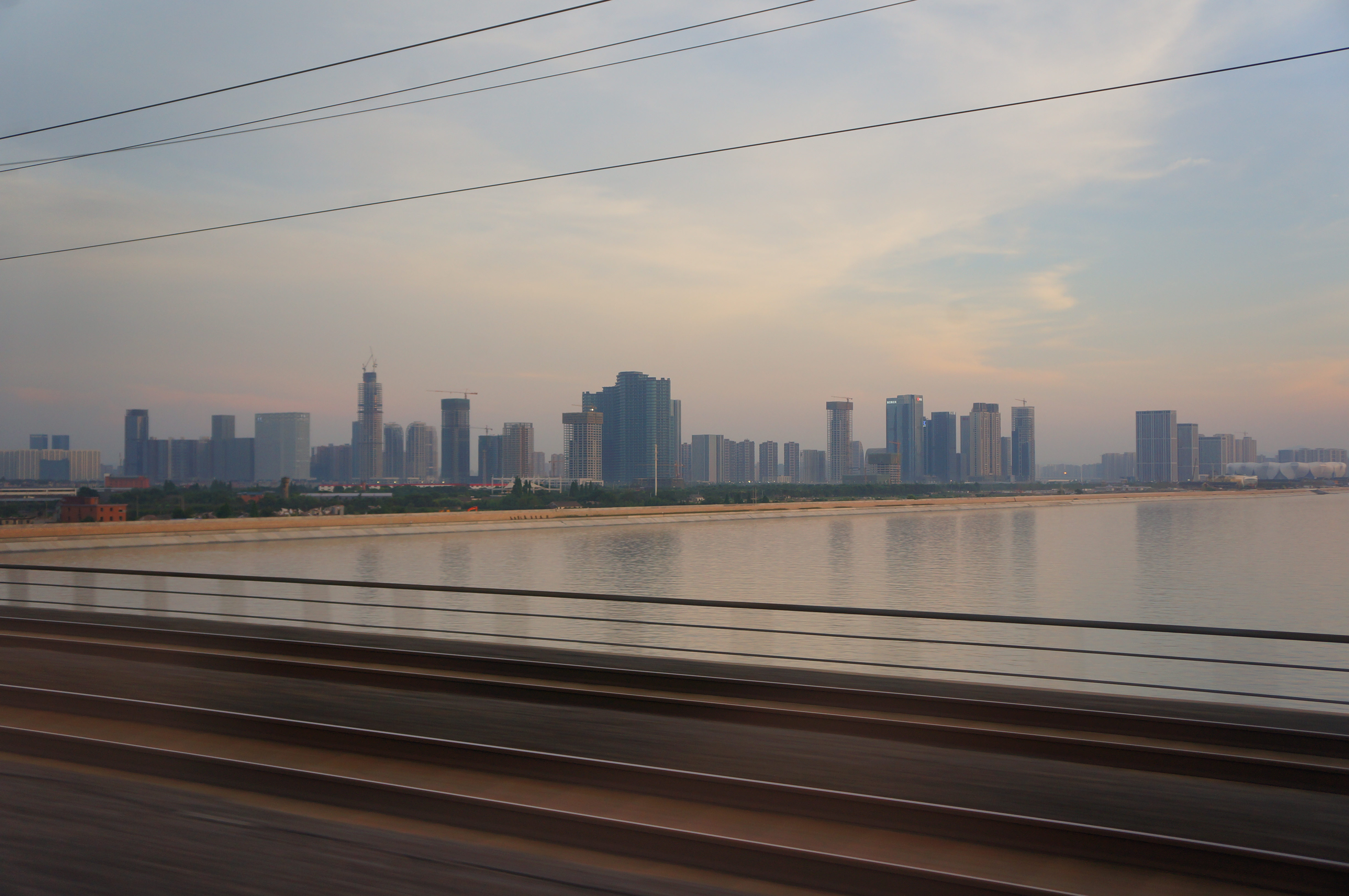 201606 Buildings in Xiaoshan District